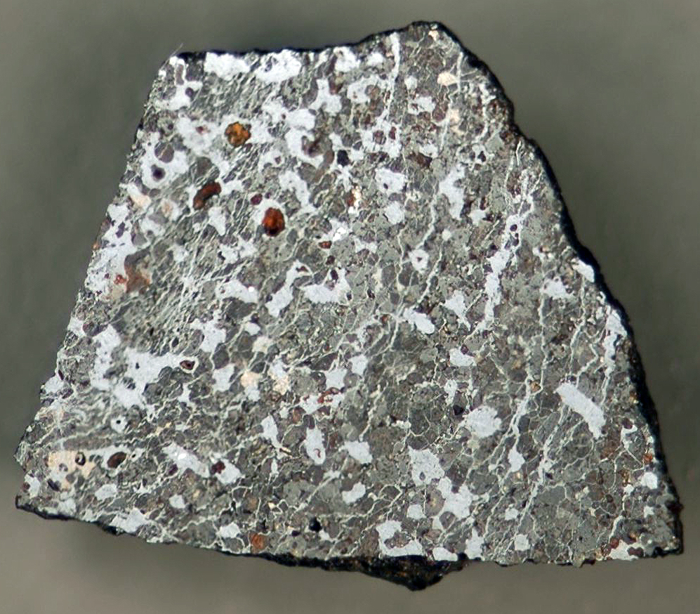 NWA 2989 meteorite, acapulcoite. Slice 1.3 cm across at its widest. showing microcrystalline texture and mixture of mafic silicate minerals & iron-nickel metal. The Fe-Ni metal shows up black in this photo.